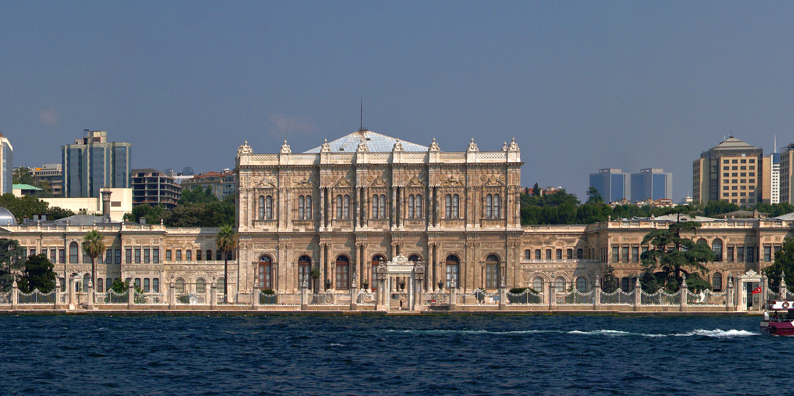 Dolmabahçe Palace viewed from the Bosphorus. Stitch of 3 horizontal images.